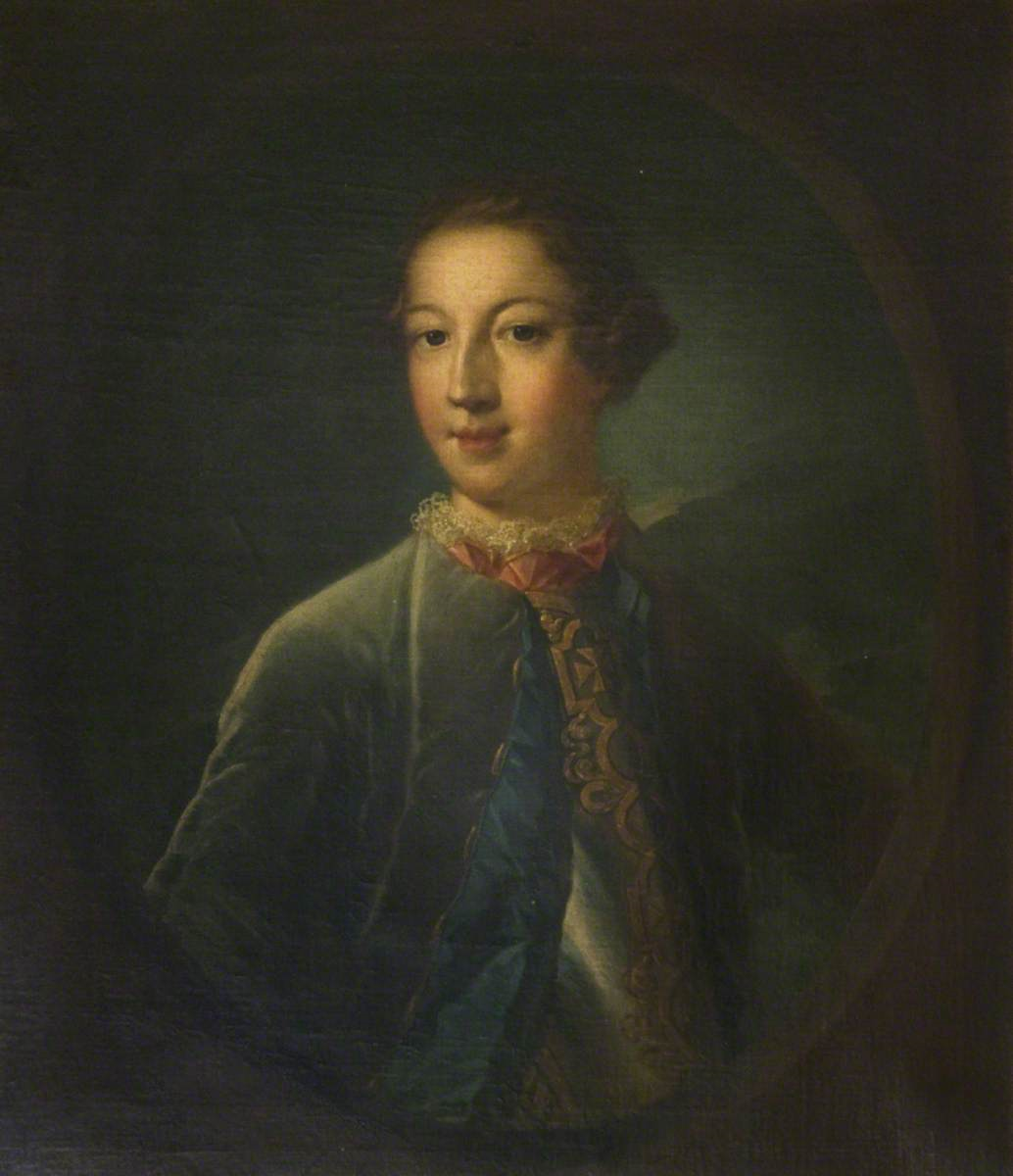 Portrait of John Francis (1741 - 1825), 7th Earl of Mar, aged 17, attributed to Allan Ramsay.